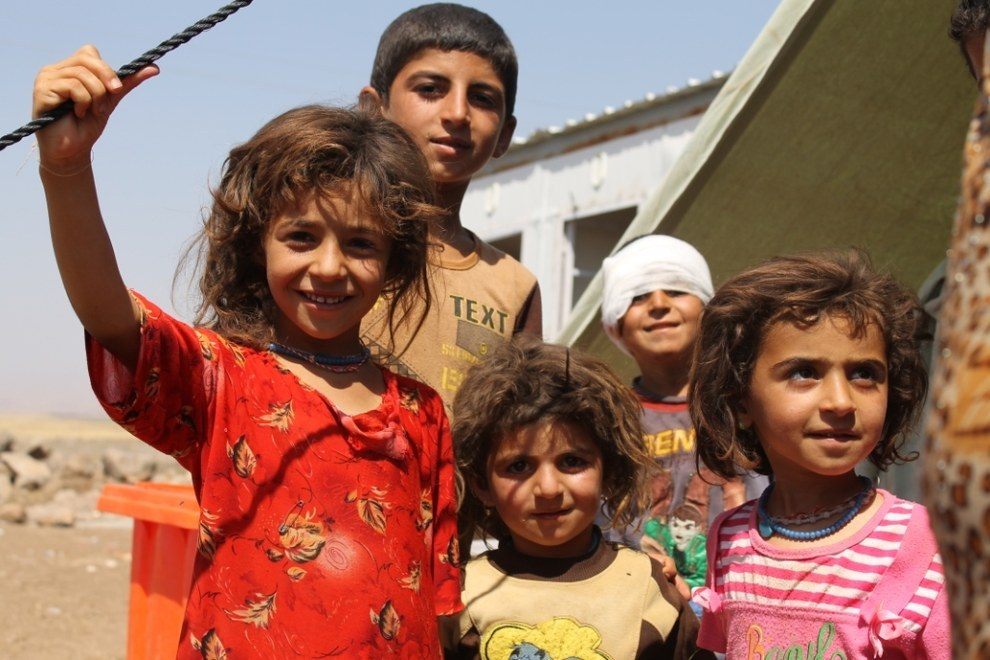 Some of the 12,000 Iraqi Yazidi refugees that have arrived at Newroz camp in Al-Hassakah province, north eastern Syria after fleeing Islamic State militants. The refugees had walked up to 60km in searing temperatures through the Sinjar mountains and many had suffered severe dehydration. The International Rescue Committee is providing medical care at the camp as well as distributing blankets, soap, underwear and solar powered lights and mobile phone chargers. Read more on this story: Latest updates on the UK government’s response to the Iraq crisis: Picture: Rachel Unkovic/International Rescue Committee